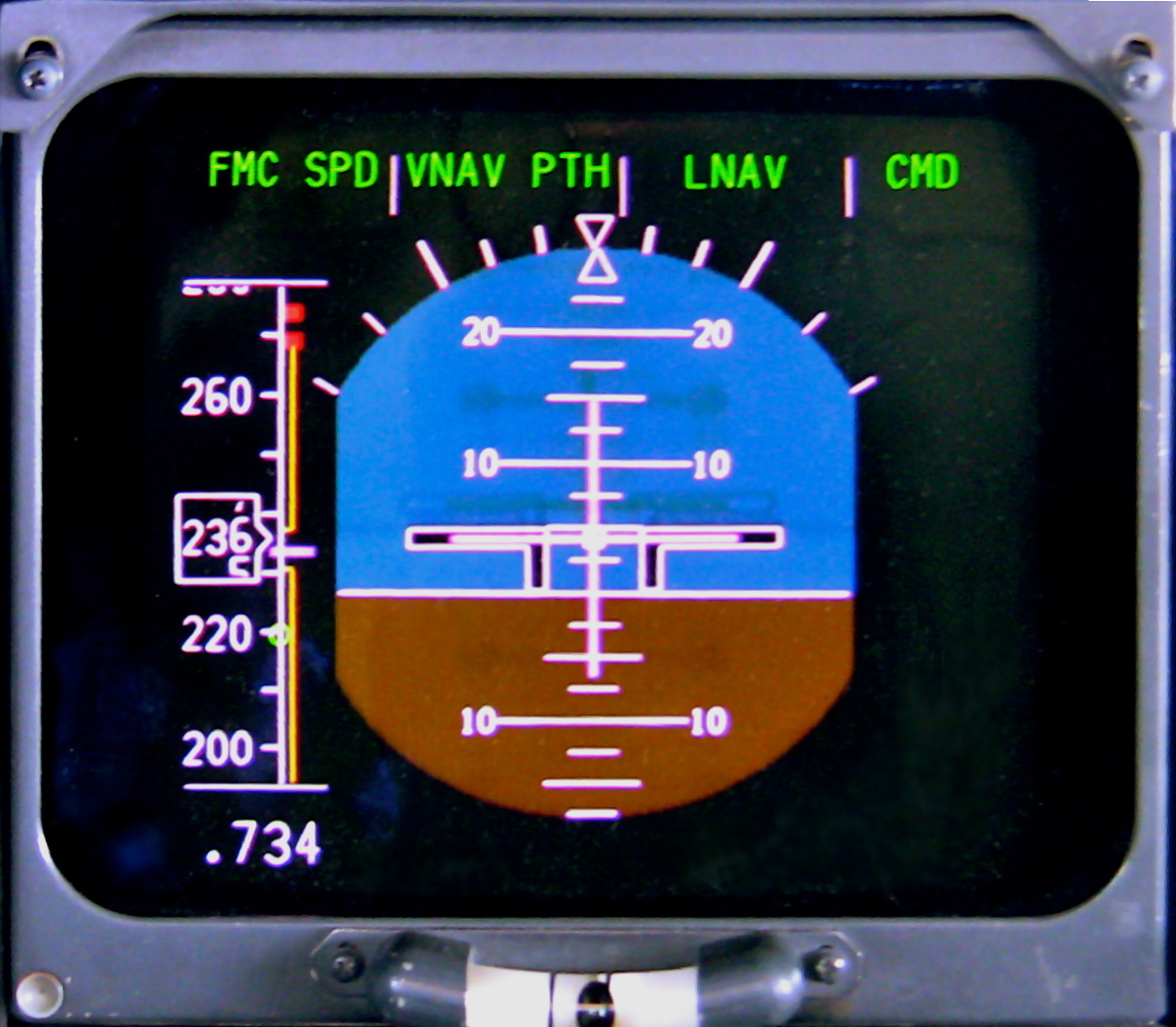 Coffin Corner, seen from the cockpit. The yellow markings on the speed-tape show the caution areas. In the yellow band you will fly close or in high oder low speed buffet.